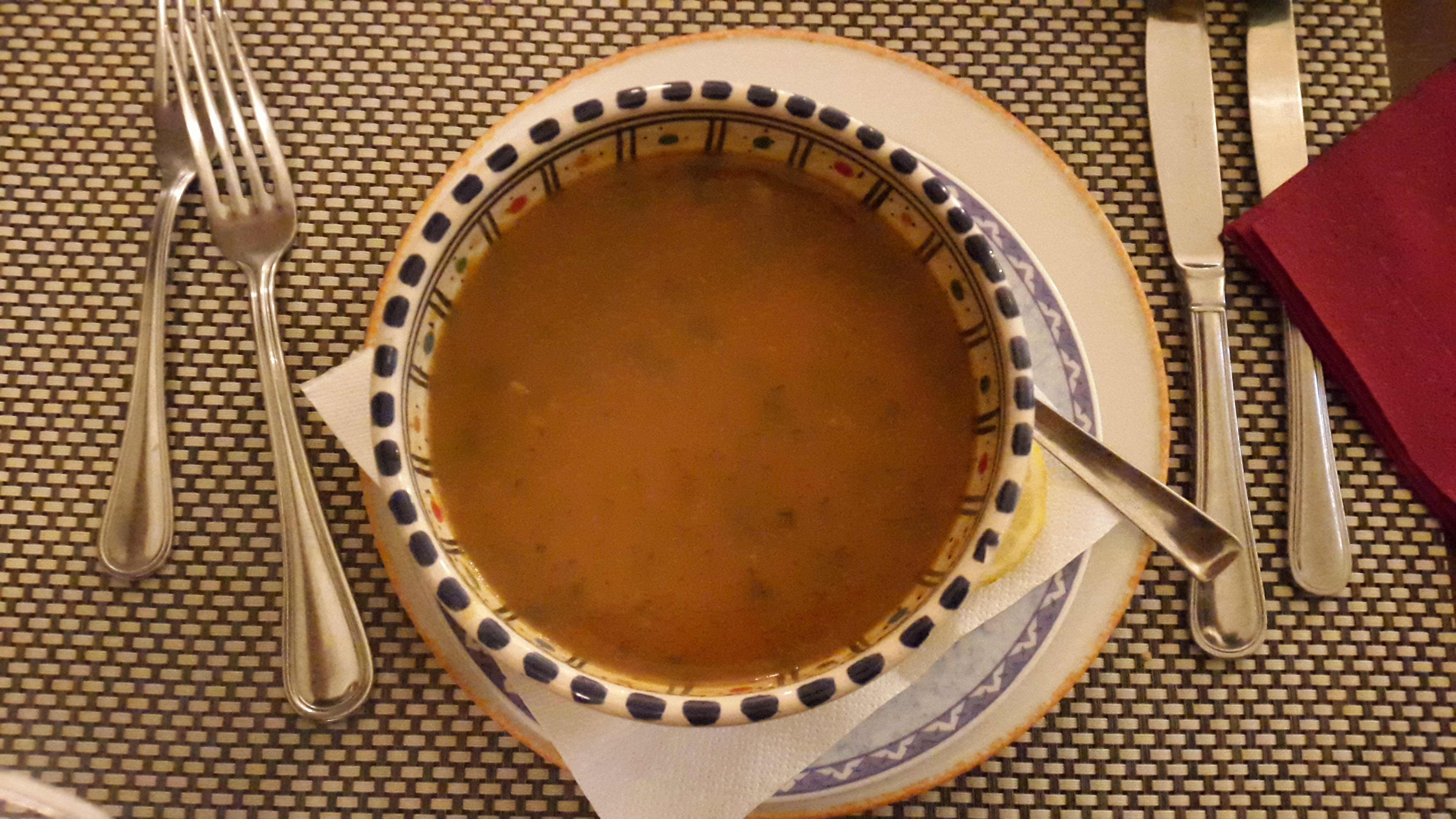 Moroccan Lentil Soup